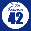 Jackie Robinson's retired #42 jersey (Montreal Expos)